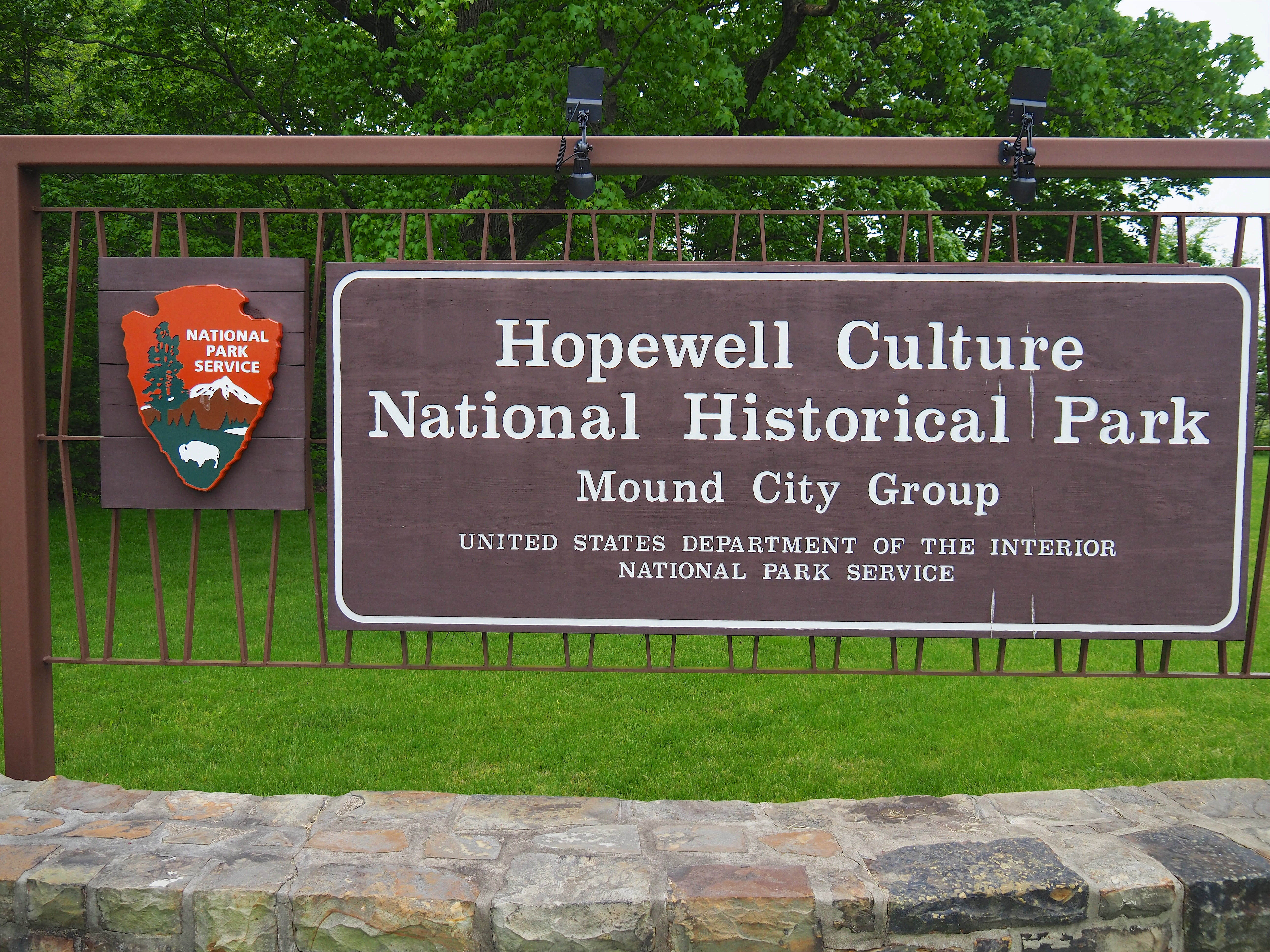 Entry sign at Hopewell Culture National Historical Park, 2017 May 10